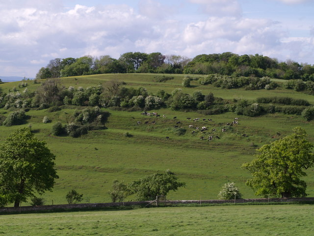 Medieval strip lynchets on the southern side of Hinton Hill, seen from Dyrham Park.